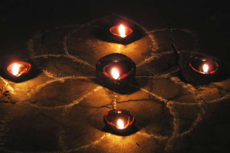 Agal vilakku (oil lamps) lit up during Karthigai Deepam, a festival of lights in Tamil Nadu, India.